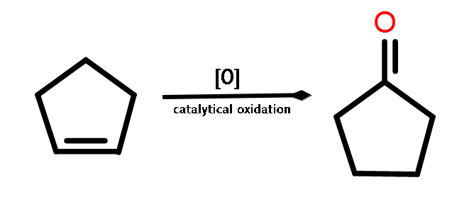 Cyclopentanone synthesis by catalytical oxidation